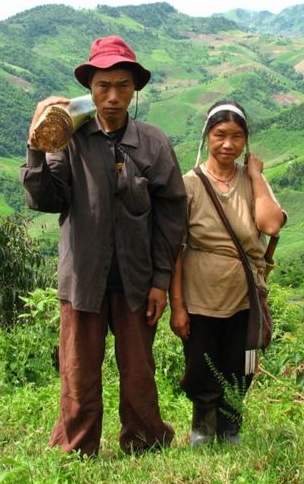 Akha couple in northern Thailand. The husband is carrying the stem of a banana-plant, which will be fed to their pigs.